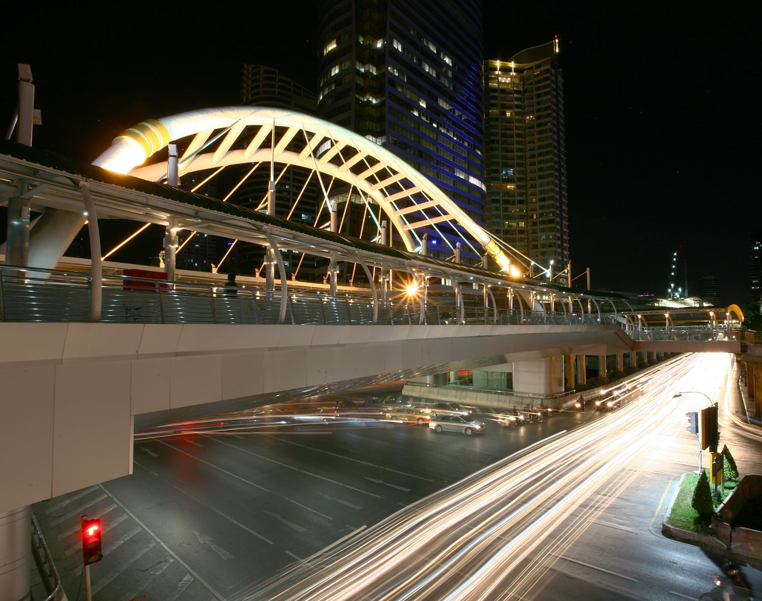 The pedestrian bridge over the Sathon-Naradhiwas Intersection in Bangkok